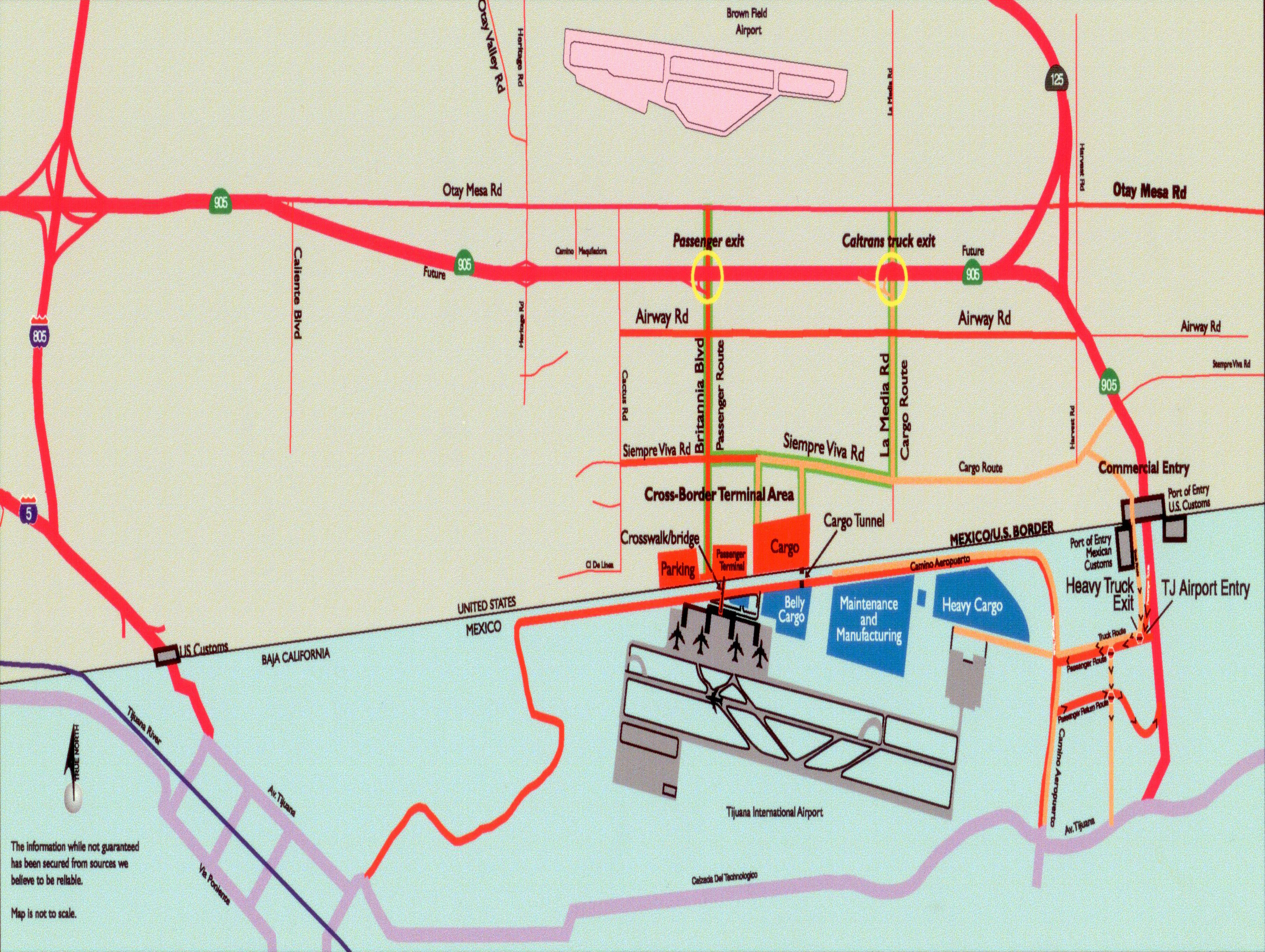 Fully developed Tijuana airport and San Diego infrastructure supporting a cross-border terminal